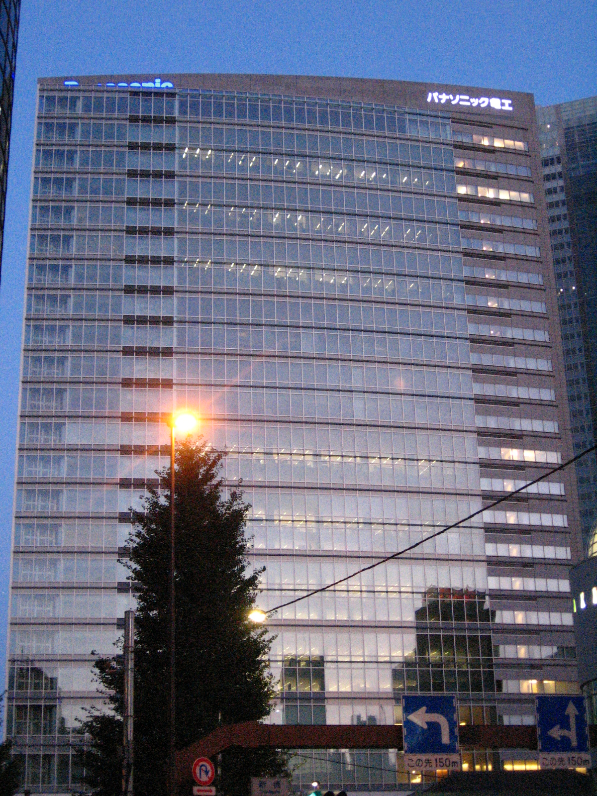 Panasonic erectric works head office buildings from Shinbashi Tokyo.